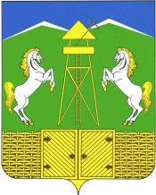 Coat of arms of Kaladzhinskaya, Labinsky Raion, Krasnodar Krai, Russia